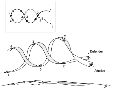 The rolling scissors